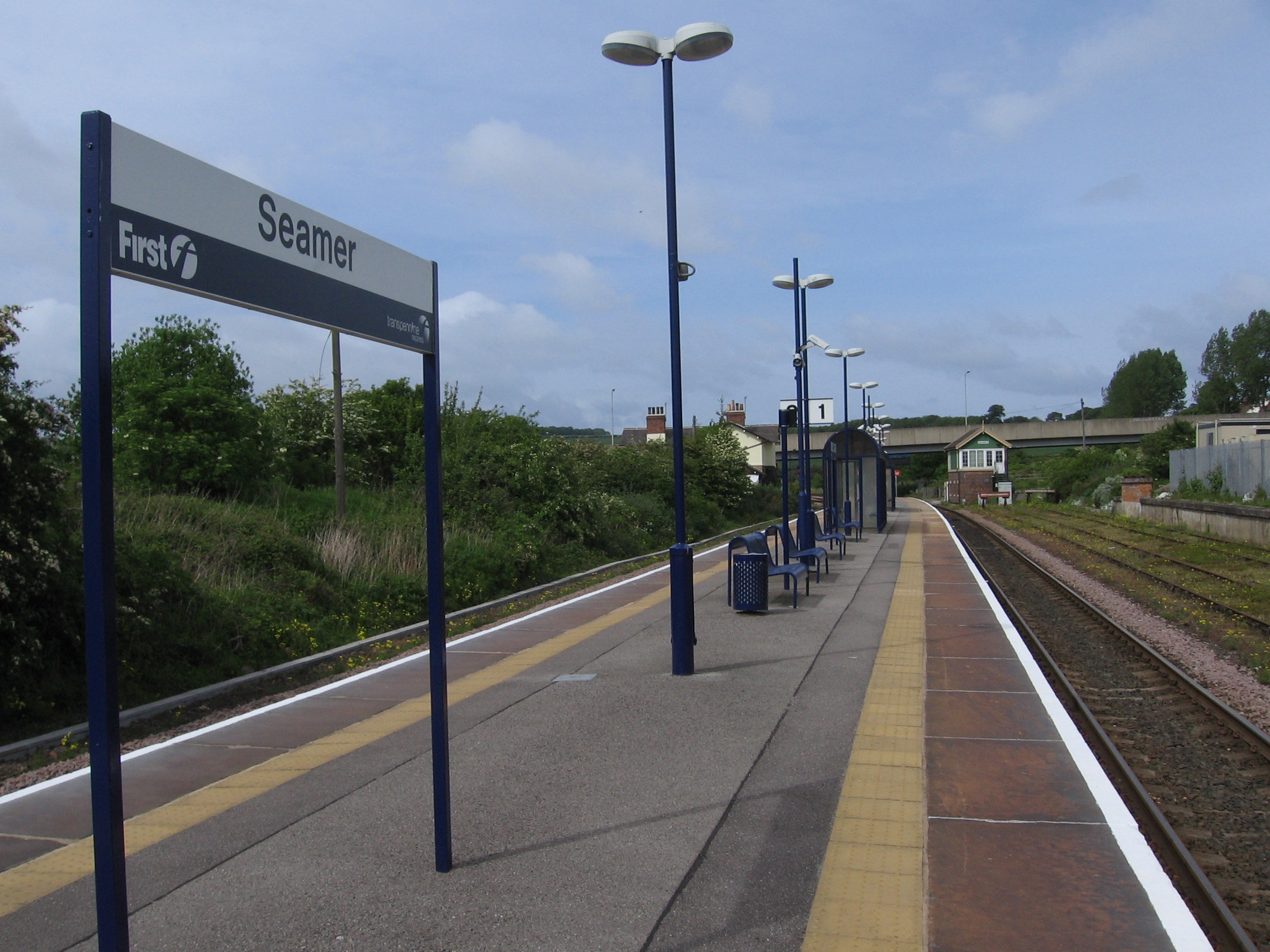 Seamer railway station, Seamer, North Yorkshire, England. Photo taken by me on 28 May 2007